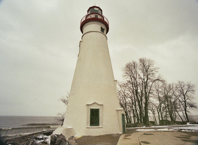 Marblehead Lighthouse, Photo by Jim Bouldin